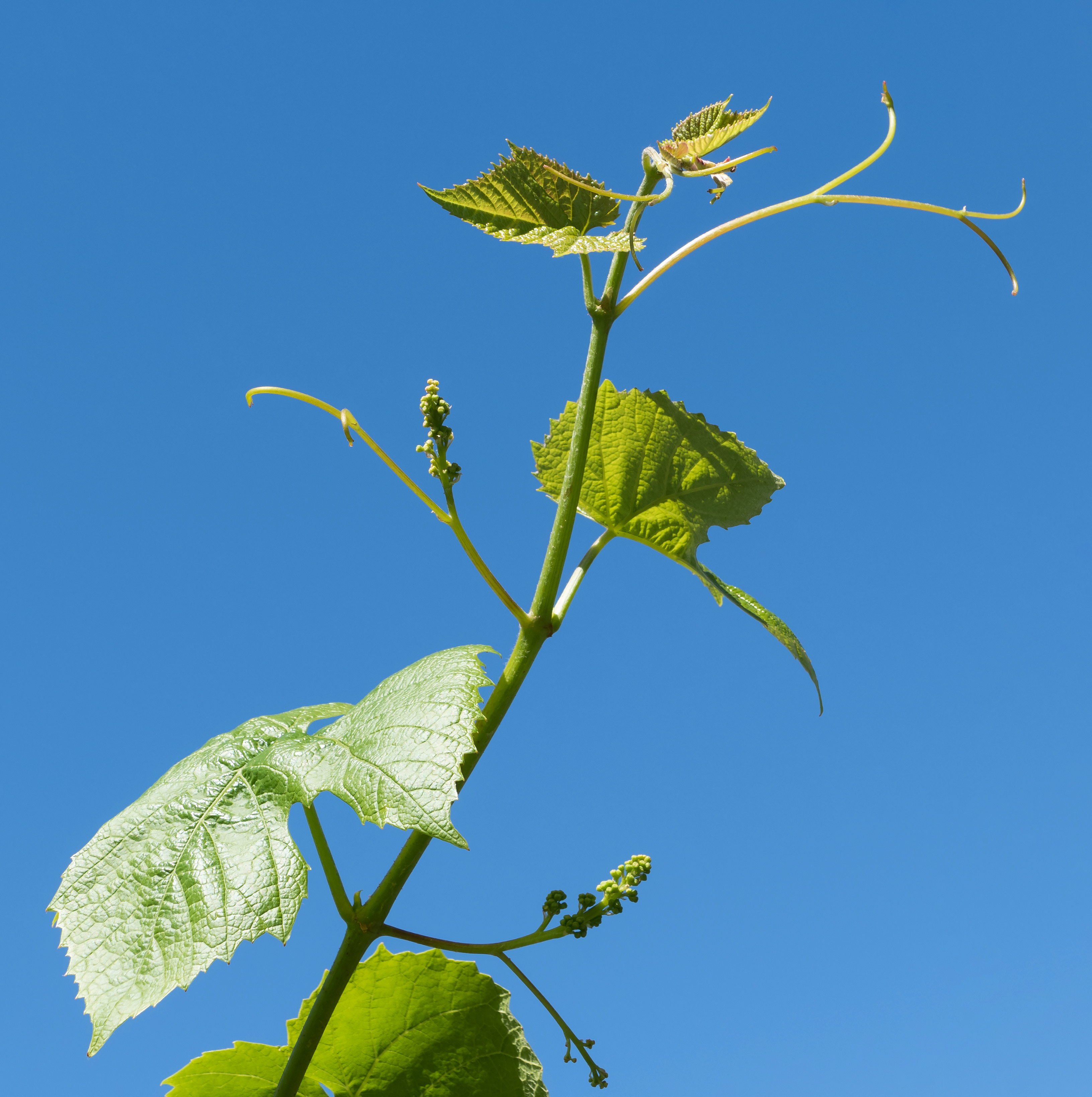 Shots of young leaves, tendrils and flowers on grapevines (Vitis vinifera) in Chateaux Luna vineyard, Lysekil, Sweden.